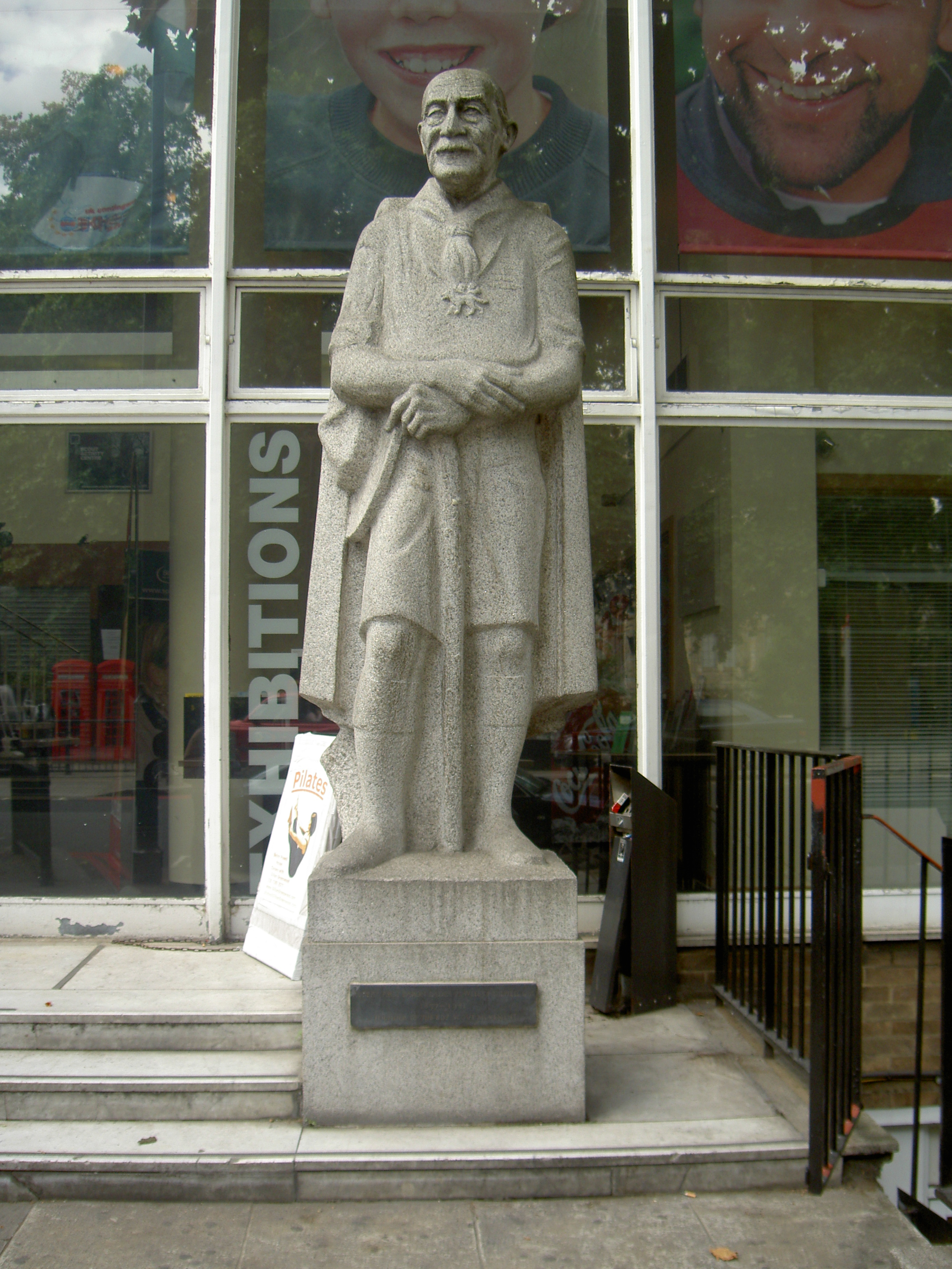 It's a monument of the Boy Scouts' founder, in London.